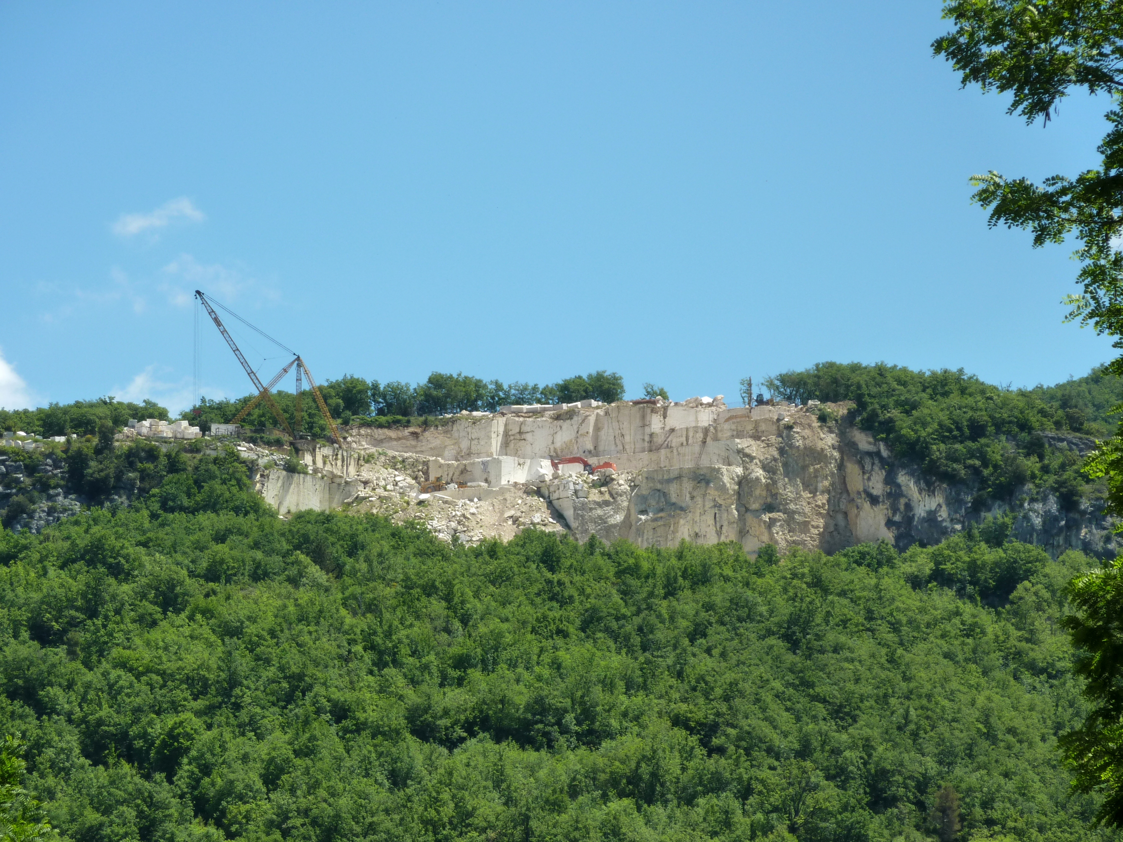 Acquasanta Terme (AP): quarry of travertine